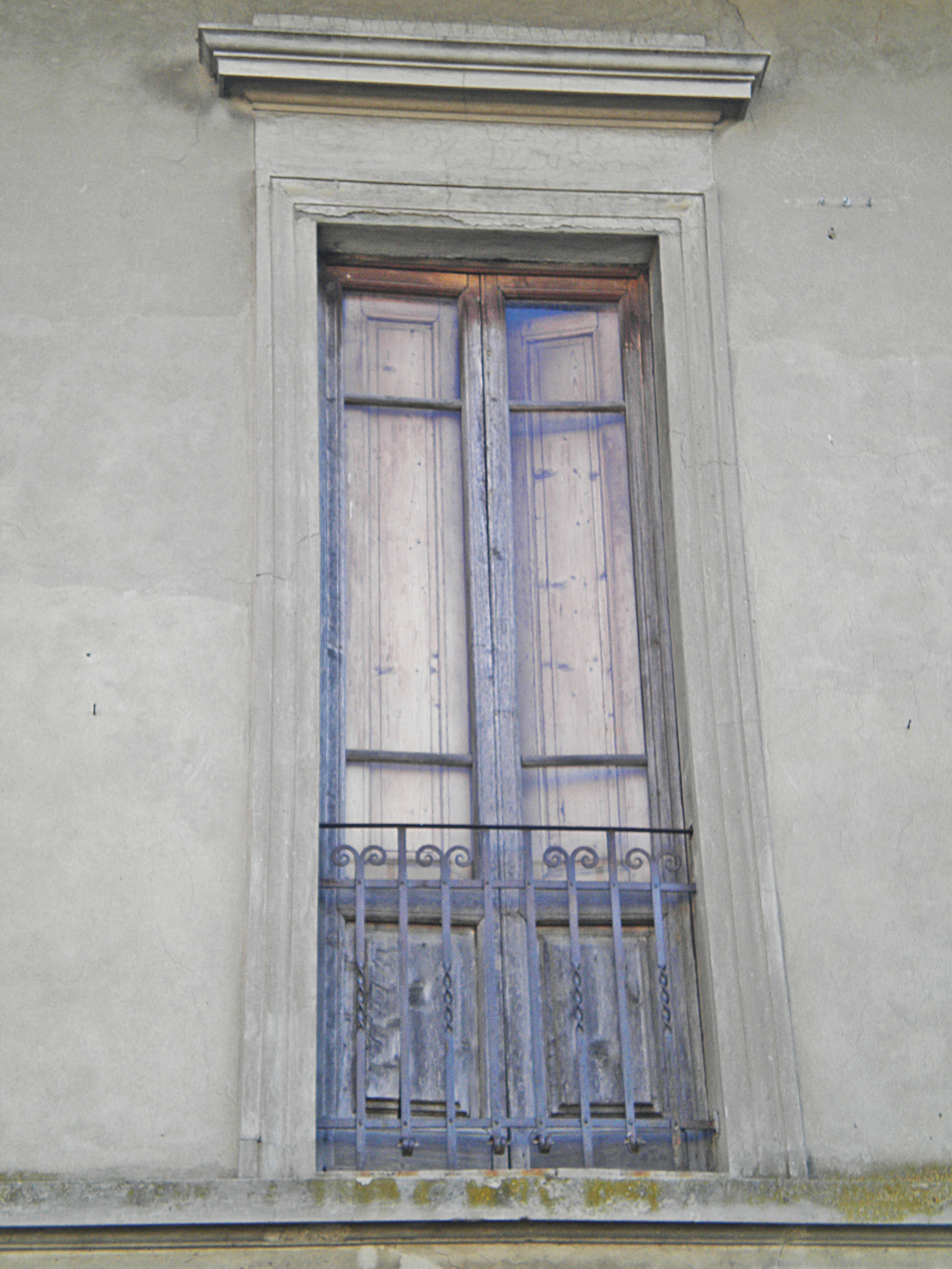 window